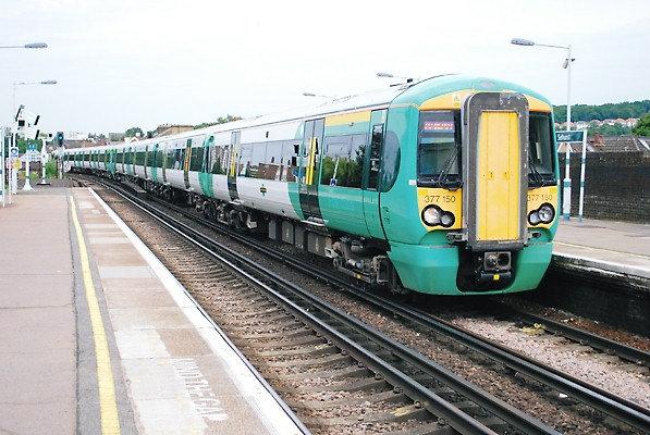 Bombardier (Derby) Class 377/1 750v dc 3rd rail "Electrostar" express 4-car emu No.377 150 of Southern sweeps through Selhurst on a Victoria - Brighton service, 06/09.